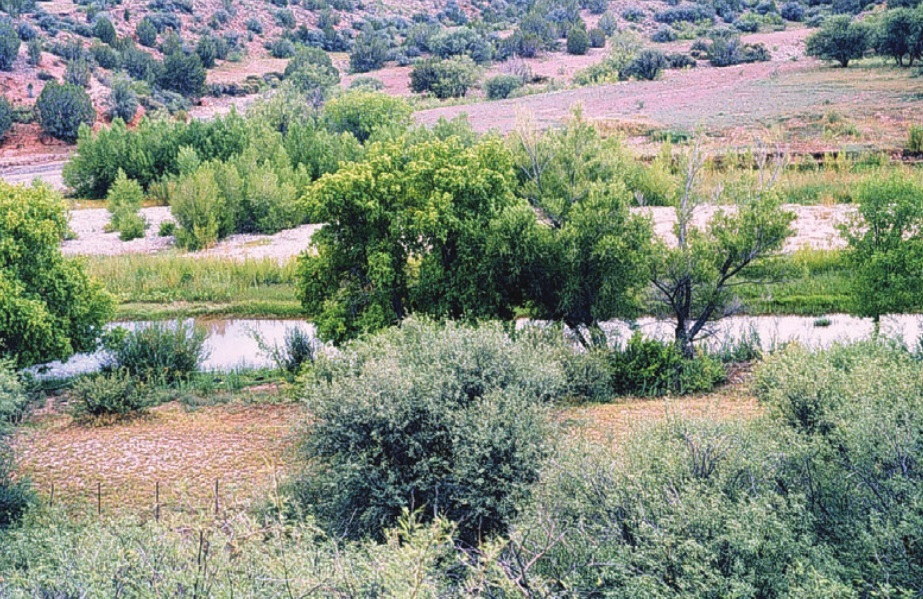 Salix gooddingii/Acer negundo plant community on Upper Verde River, Arizona, USA